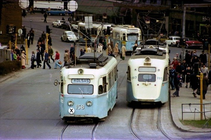 Oslo Sporveier Gullfisk trams at Nationaltheatret (no. 158 and 197). In the background Høka MBO.